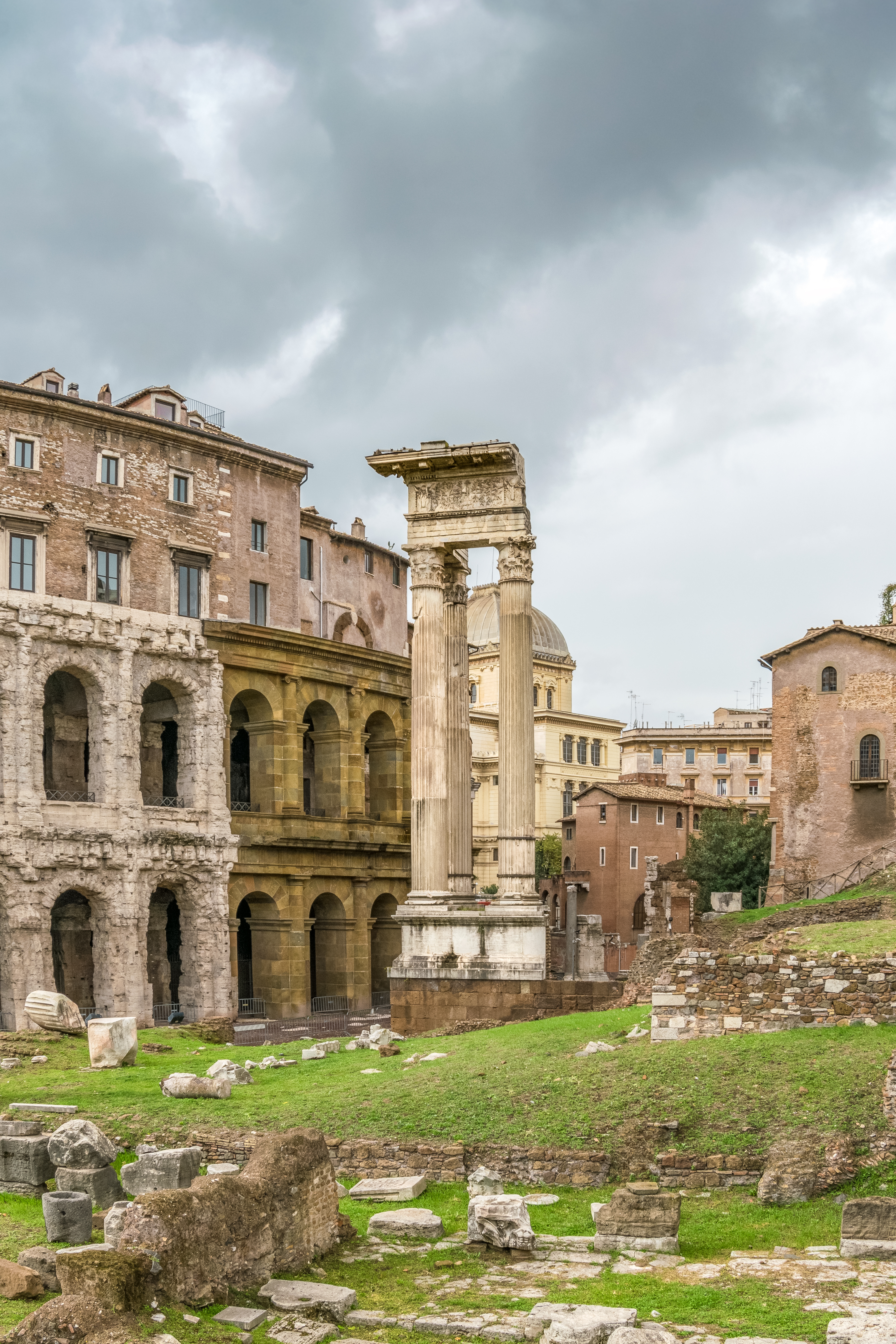 The Temple of Apollo Sosianus northeast of the Marcellus Theater in Rome by the Via del Teatro di Marcello